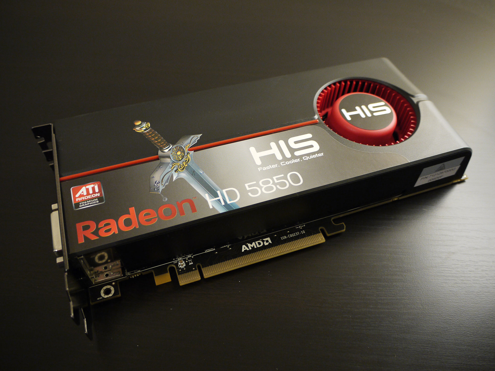 A Radeon HD 5850 by HIS. See also Evergreen (GPU family)